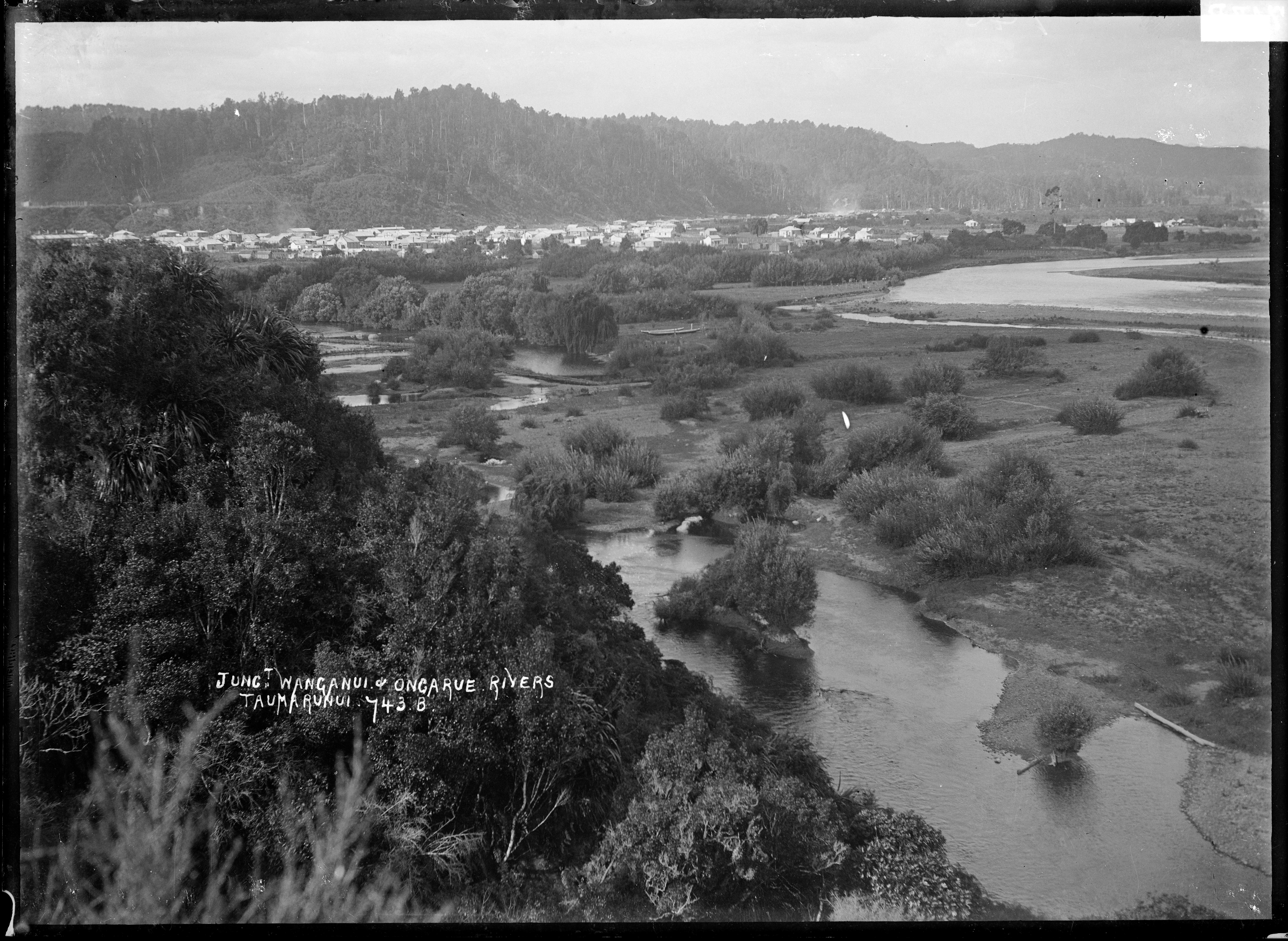 Junction of the Whanganui and Ongarue Rivers at Taumarunui. Taken by William A Price between 1900 and 1930. Inscriptions: Inscribed - Photographer's title on negative -bottom left: Junct Wanganui & Ongarue Rivers Taumarunui. 743. B. Quantity: 1 b&w original negative(s). Physical Description: Dry plate glass negative Junction of the Whanganui and Ongarue Rivers at Taumarunui. Price, William Archer, 1866-1948 :Collection of post card negatives. Ref: 1/2-000791-G. Alexander Turnbull Library, Wellington, New Zealand.